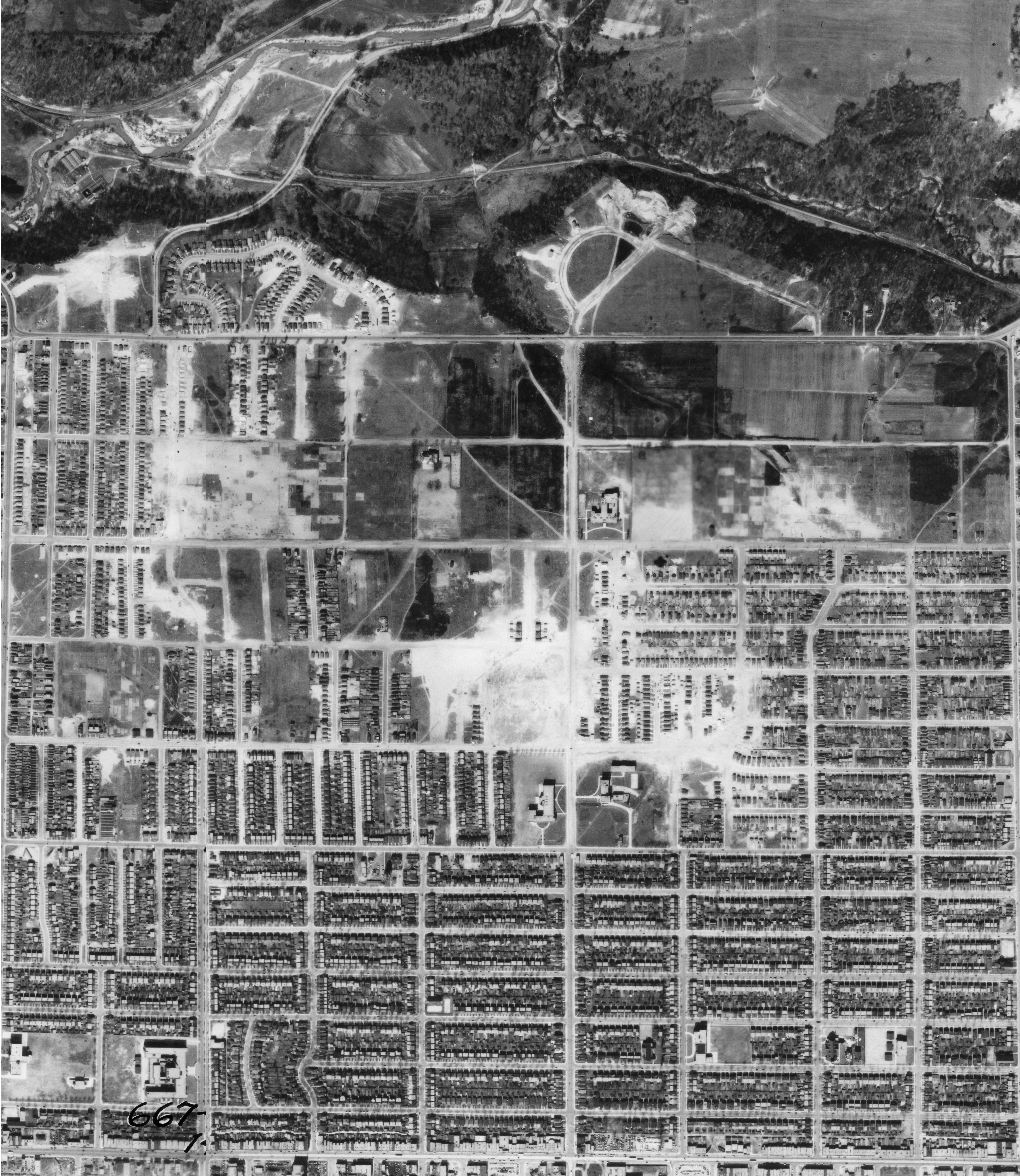 Aerial Photograph of East York, 1942